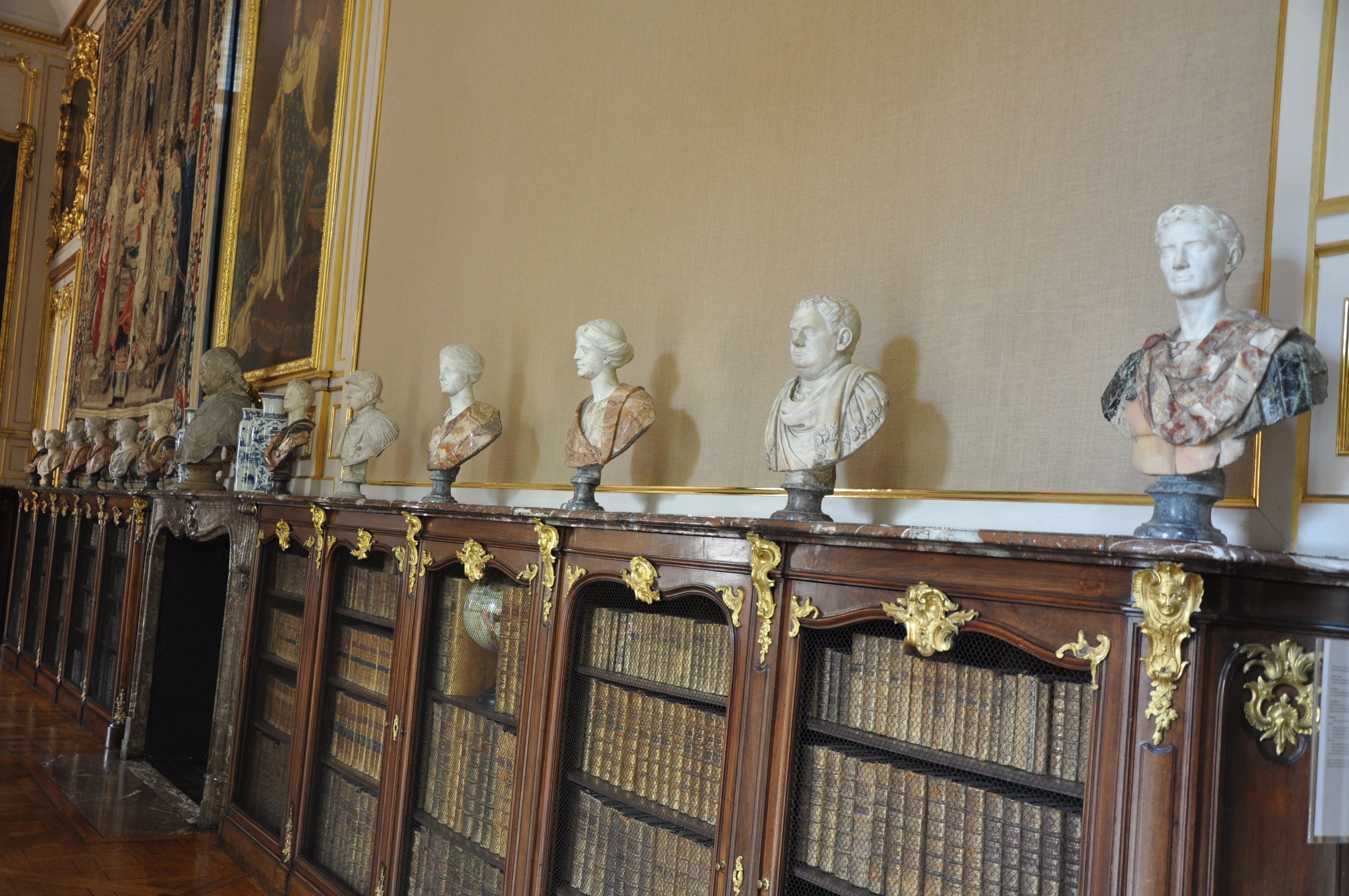 Palais Rohan : busts in the library